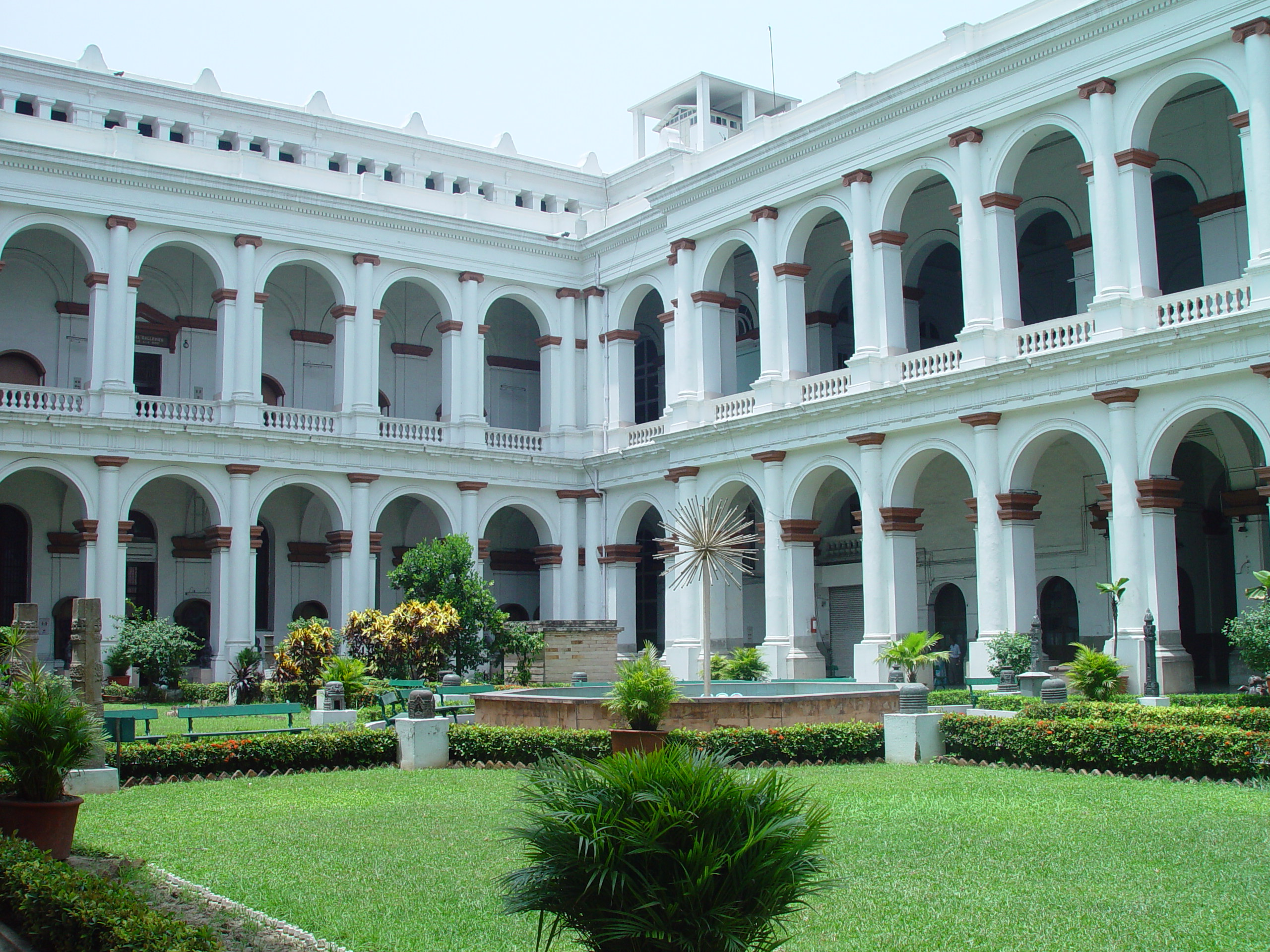 Court Yard of India Museum, Kolkata